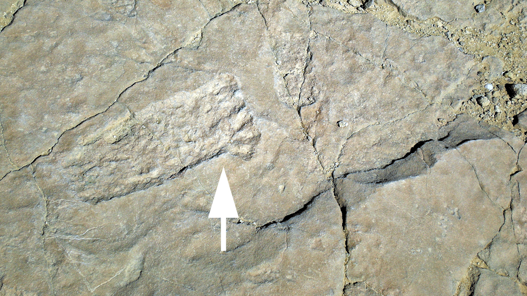 picture of the recently discovered footprint near Siwa in Egypt